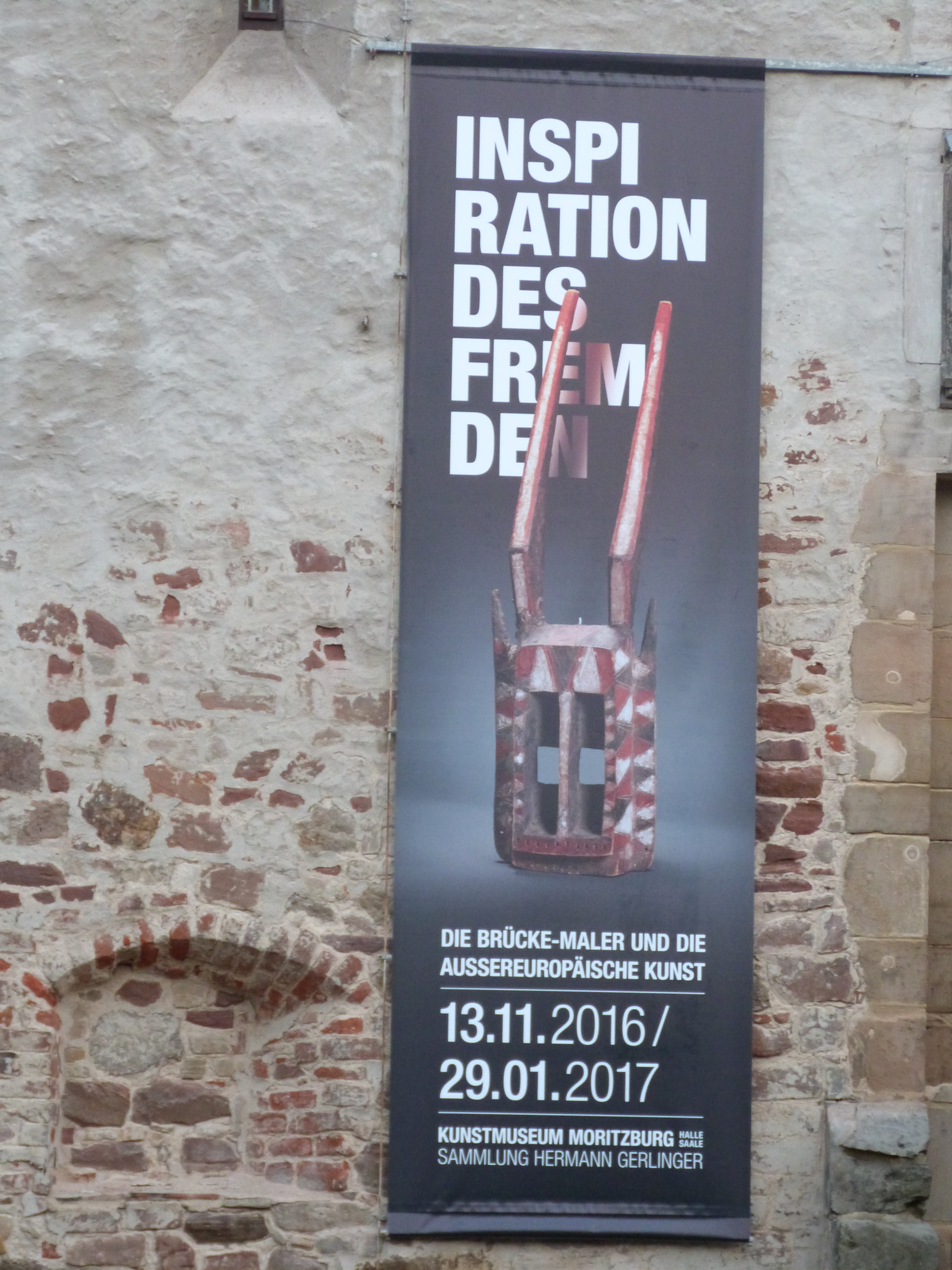 Art museum Moritzburg, Halle (Saale), exposition Inspiration des Fremden (Inspiration of the stranger), art collection Hermann Gerlinger